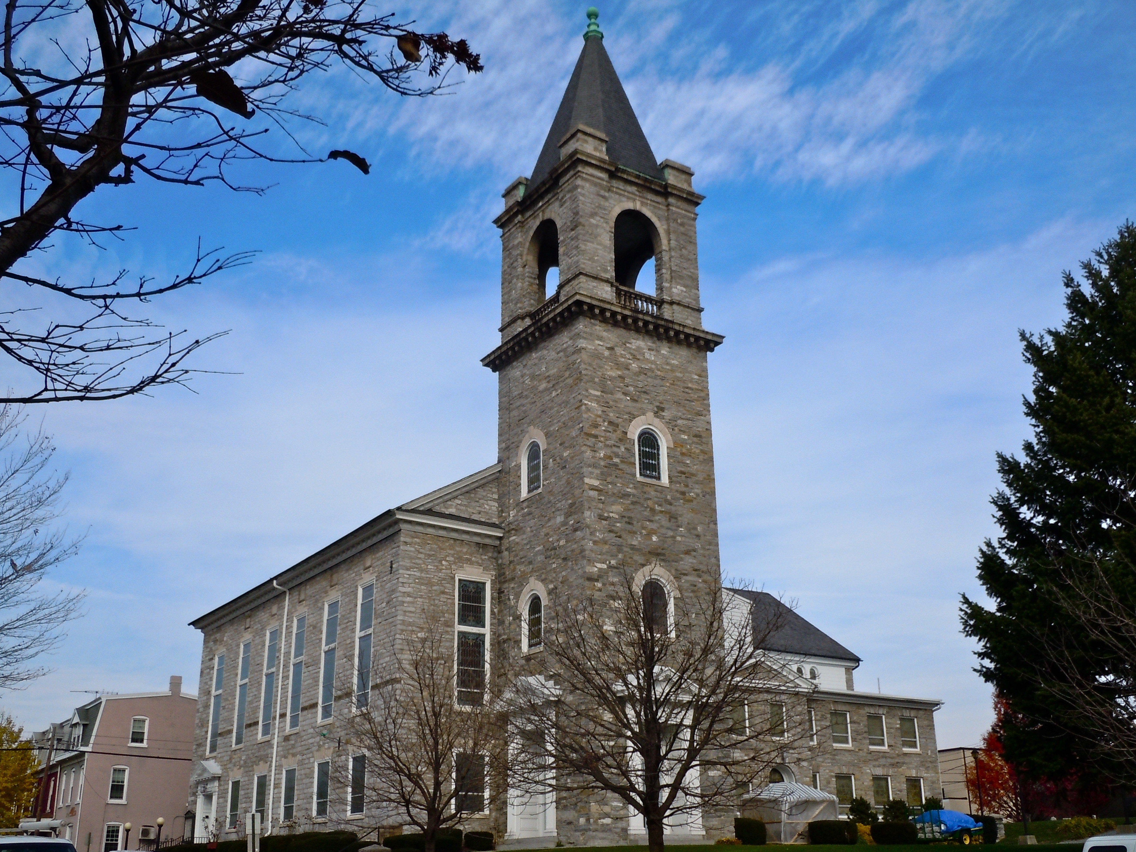 Tabor Reformed Church on the NRHP since June 27, 1980. At 10th and Walnut Streets, Lebanon, Pennsylvania. Formerly (Dutch?) Reformed Church, now United Church of Christ. Steeple seems to have been added at a later date.